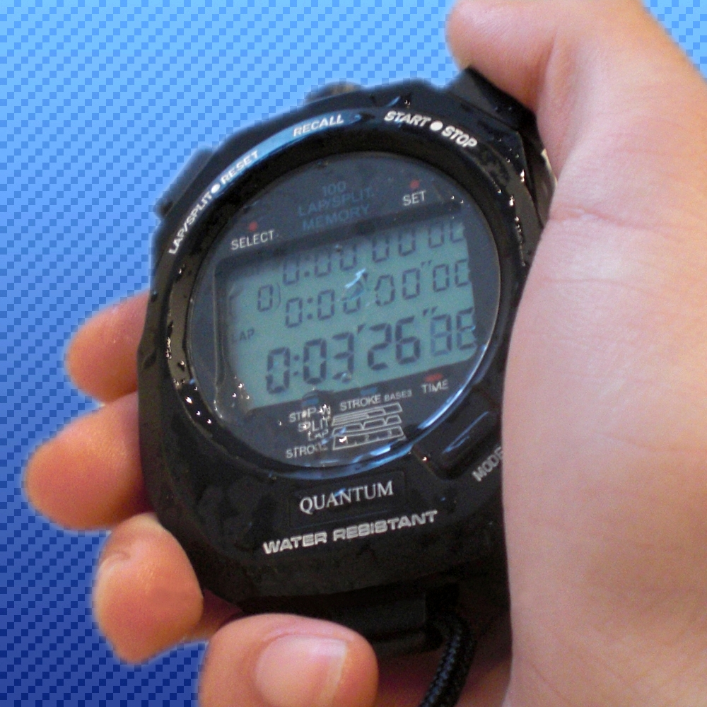 Picture of ST-X3 stroke-timer by